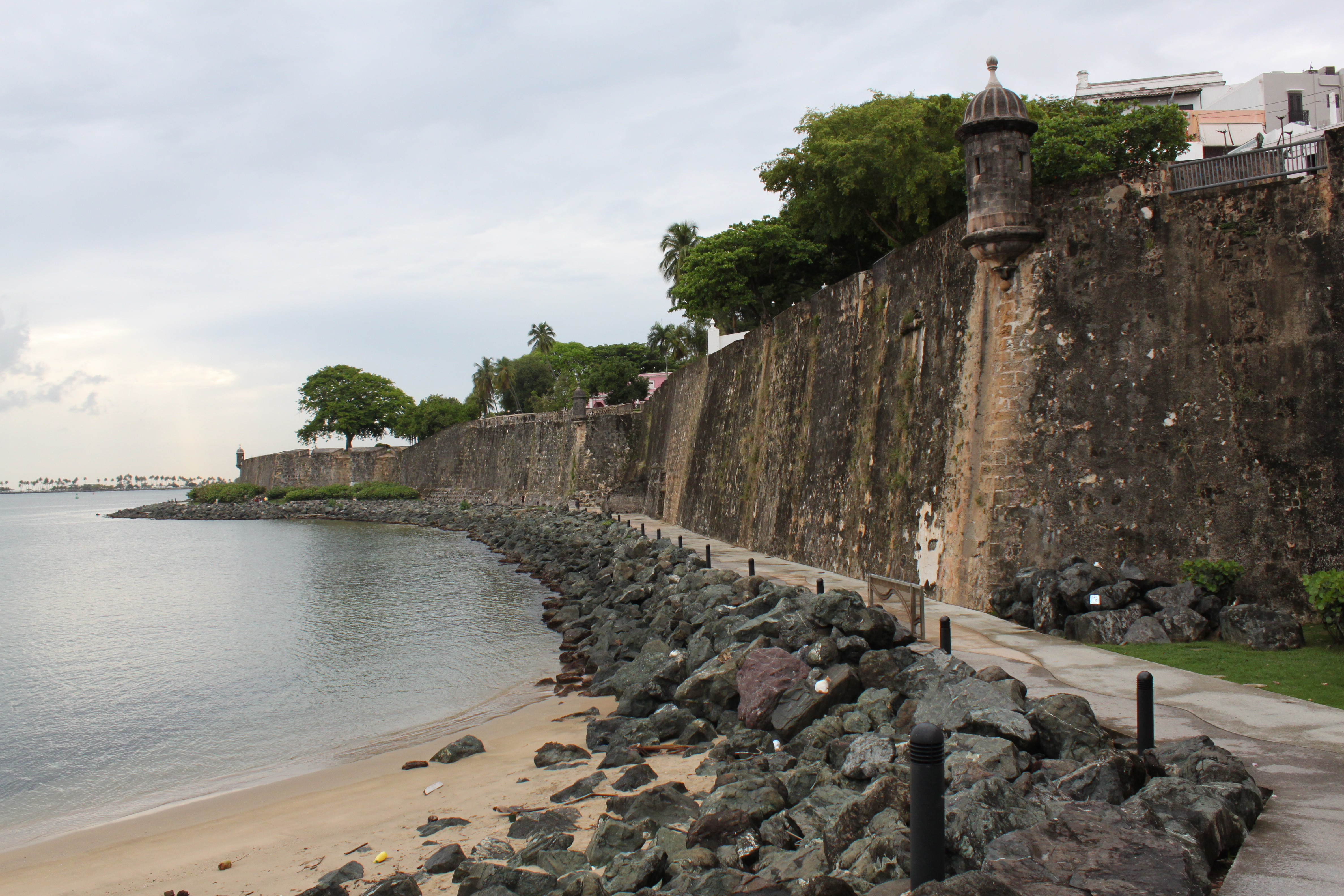 42-foot high city wall near the city gate in Old San Juan, San Juan, Puerto Rico, U.S.A.